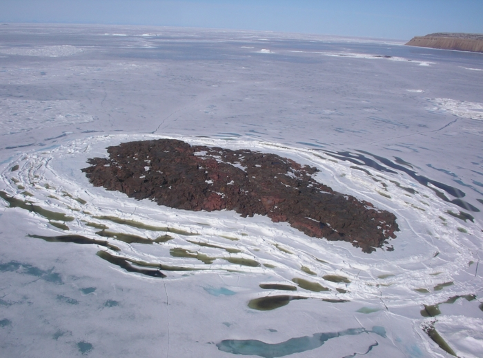 Ruin Island off the Northeast coast of Greenland coordinates 78.867894,-69.189861